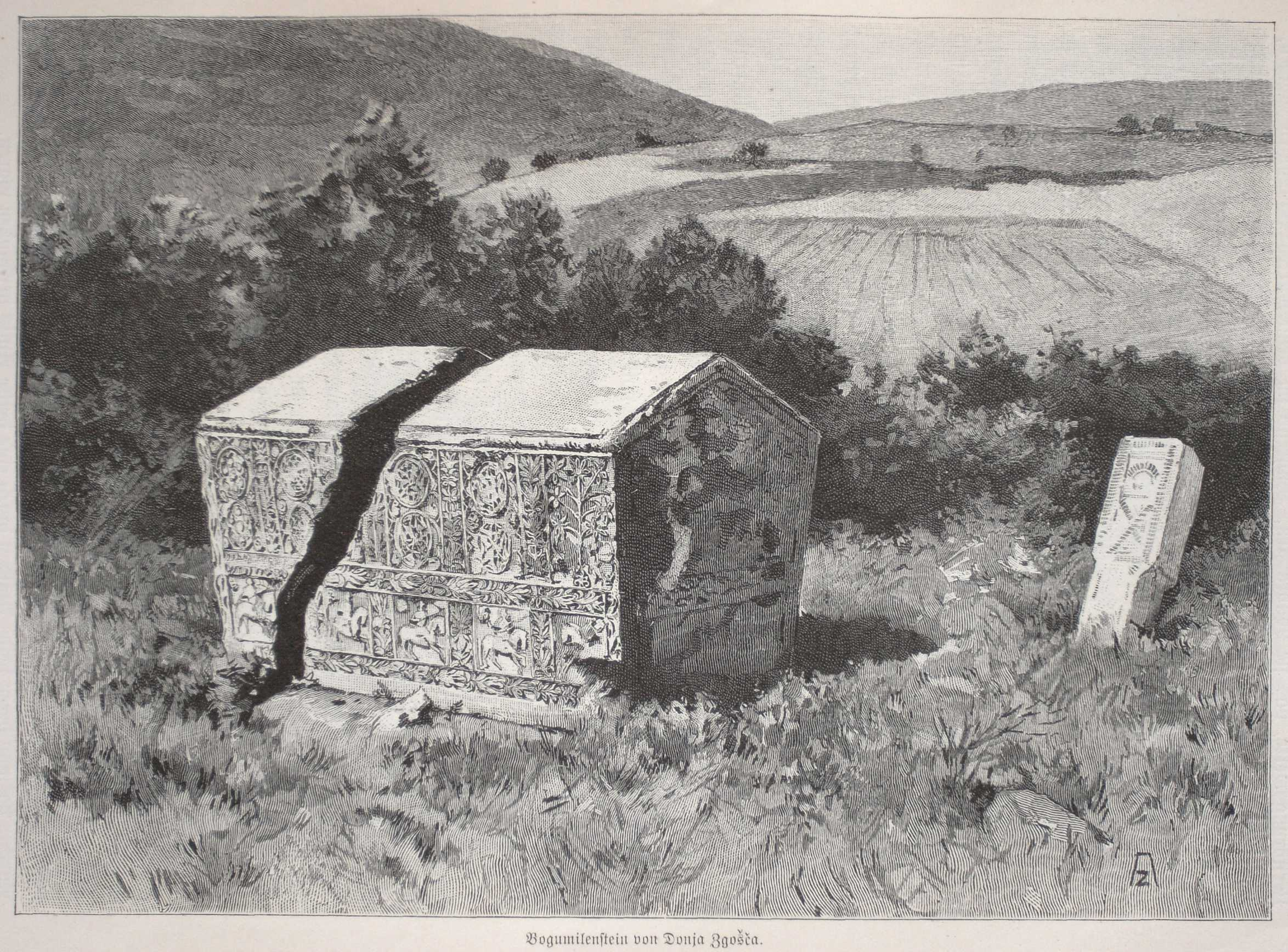 Stećci in Bosnia and Herzegovina approx. 1901. Title: Bogumilenstein von Donja Zgošća